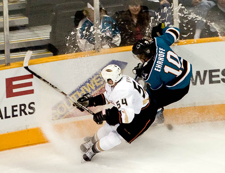 Bobby Ryan of the Anaheim Ducks and Christian Ehrhoff of the San Jose Sharks in pre-season play on September 21, 2007.